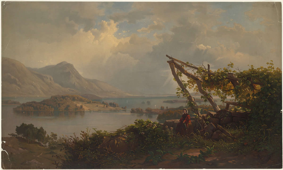 File name: 07_11_001421 Title: Lake George Creator/Contributor: Fuechsel, Hermann, 1833-1915 (artist); L. Prang & Co. (publisher) Date issued: 1861-1897 (approximate) Copyright date: Physical description note: Genre: Chromolithographs; Landscape prints Location: Boston Public Library, Print Department Rights: No known restrictions Flickr data on 2011-08-03: Camera: Sinar AG Sinarback 54 FW, Sinar m License: CC BY 2.0 User: Boston Public Library BPL